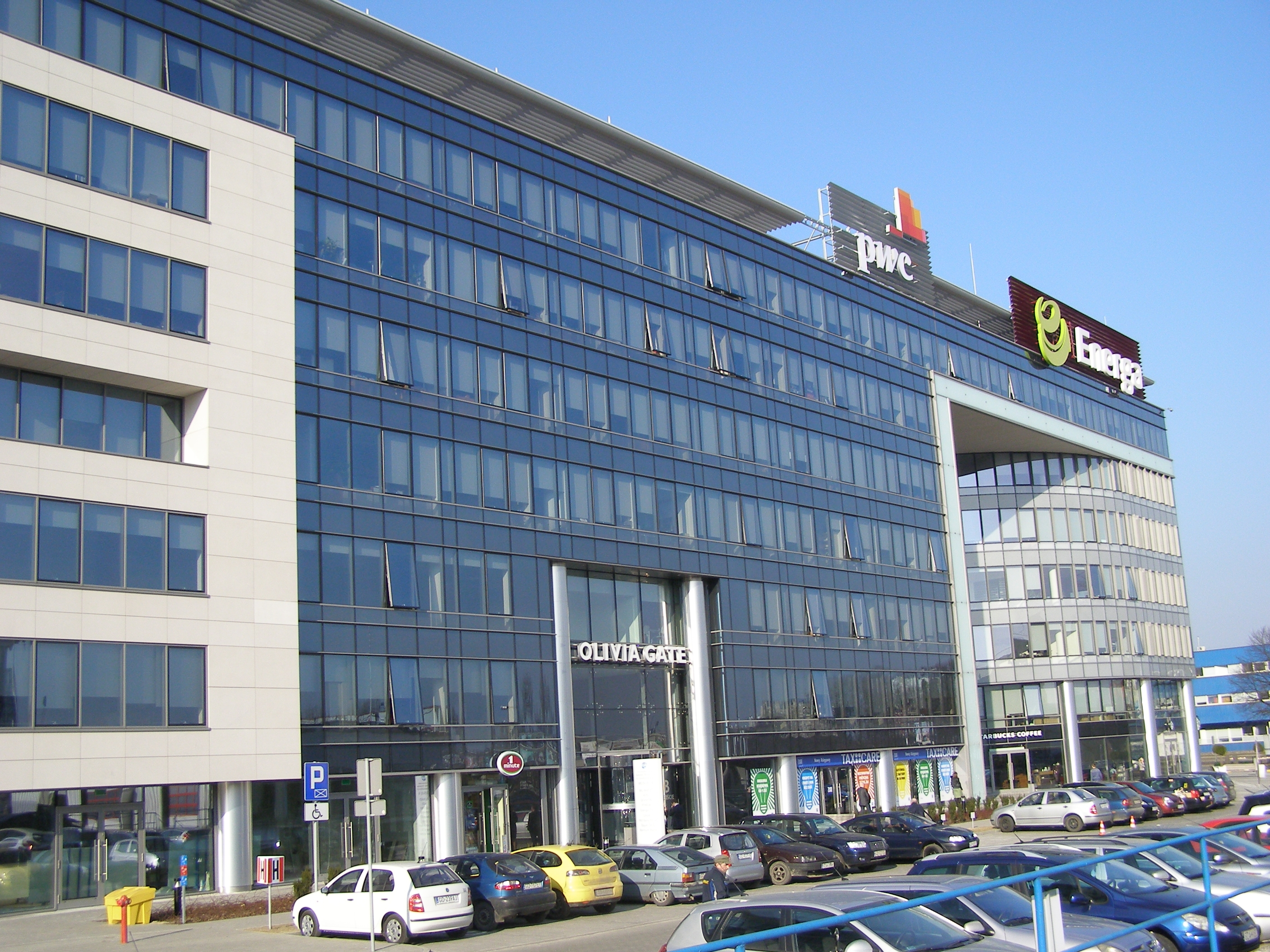 Gdańsk - Olivia Gate office building